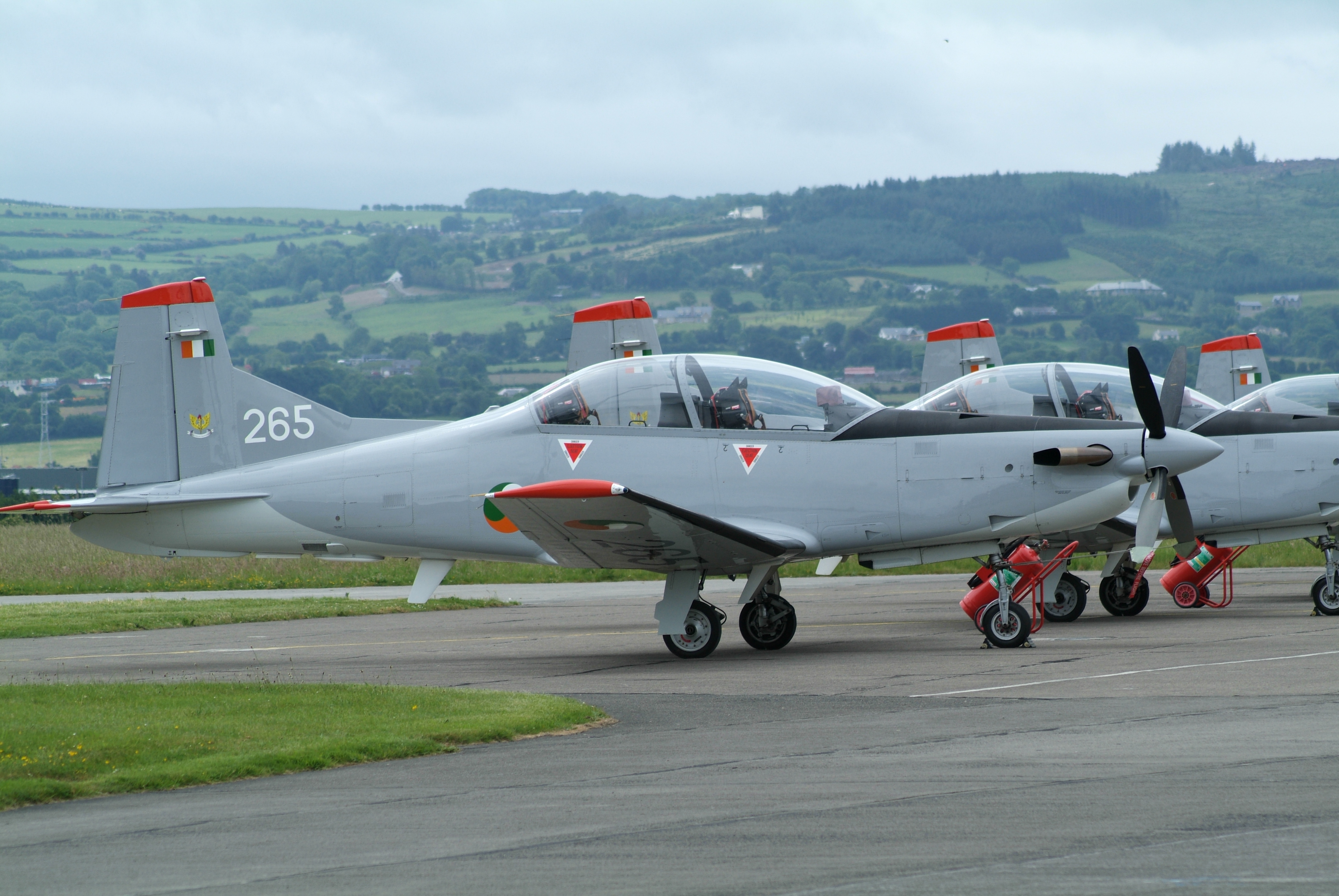 These trainers also have a limited offensive capability